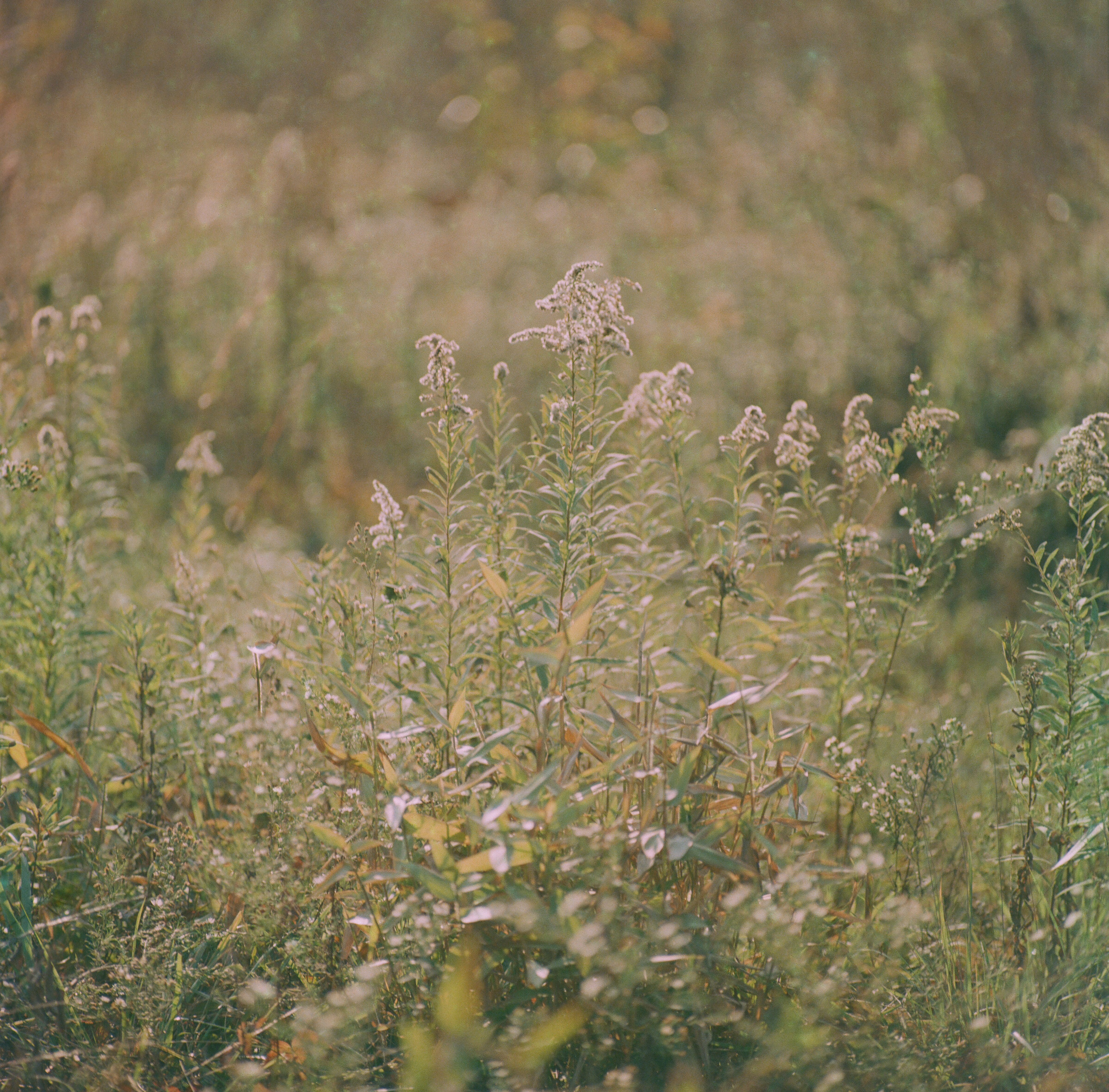 Photography by Victor Albert Grigas (1919-2017) 000172050002 Photography by Victor Albert Grigas (1919-2017)